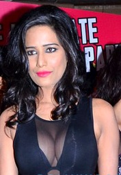 Poonam Pandey attends the 'What The Fish' bash snapped on 11 December 2013.